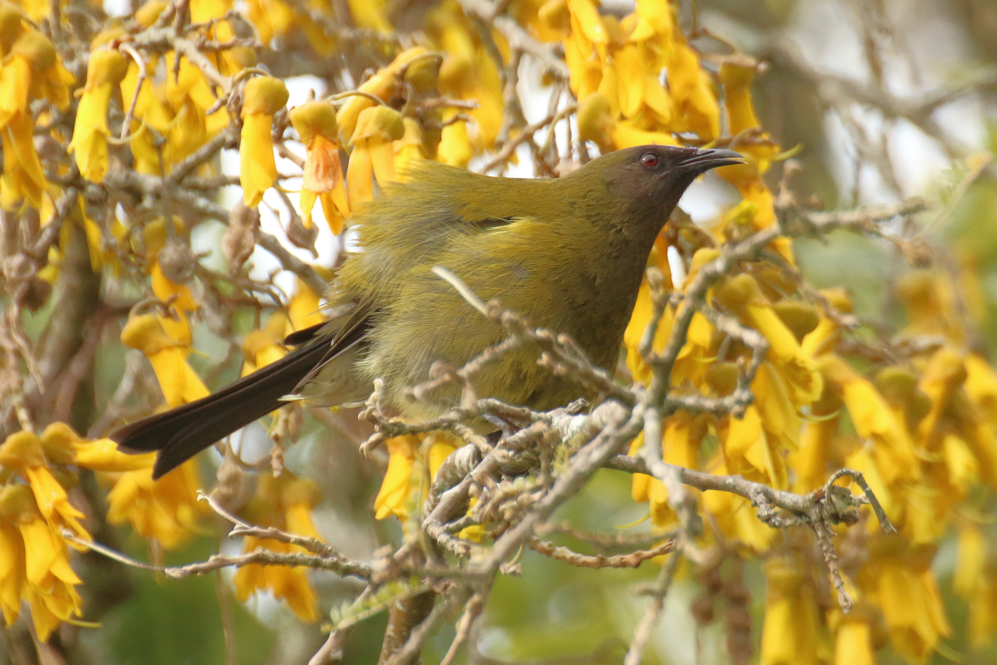 New Zealand Bellbird (Anthornis melanura)